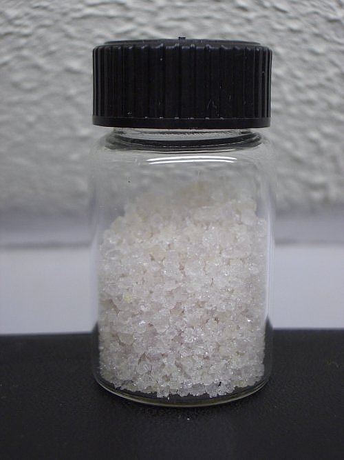 Iron(III) ammonium sulfate 吴语: 硫酸铁(III)铵